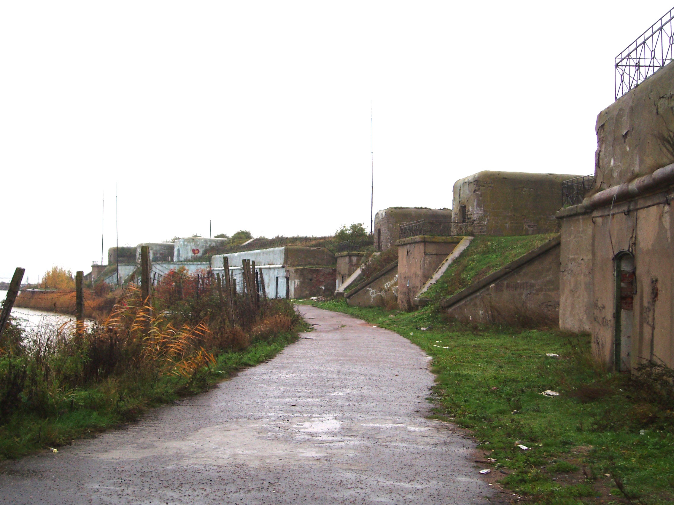 Northern fort in Kronstadt, Russia.